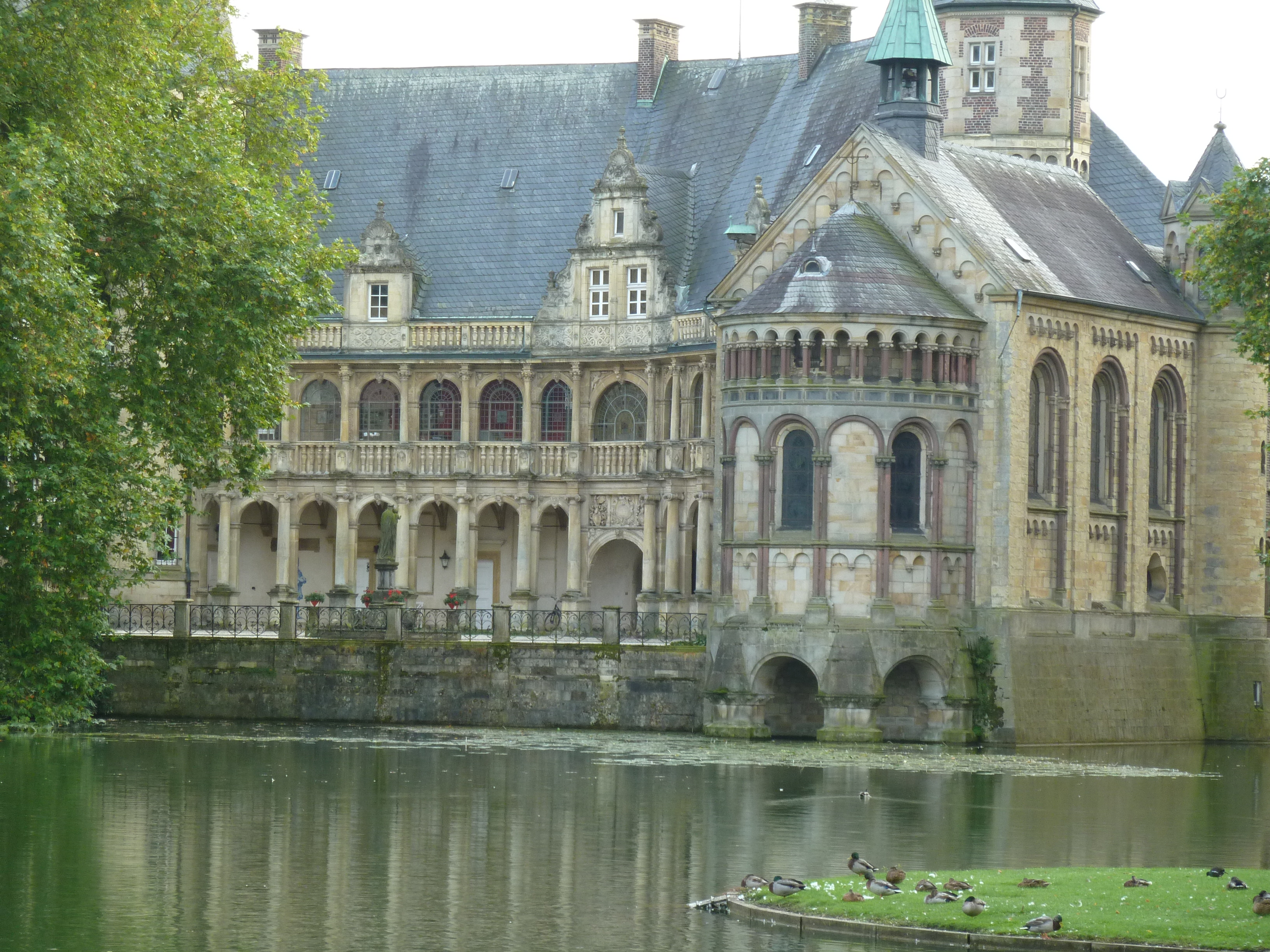 "Arkadenhof" and Chapel (right) of Darfeld castle